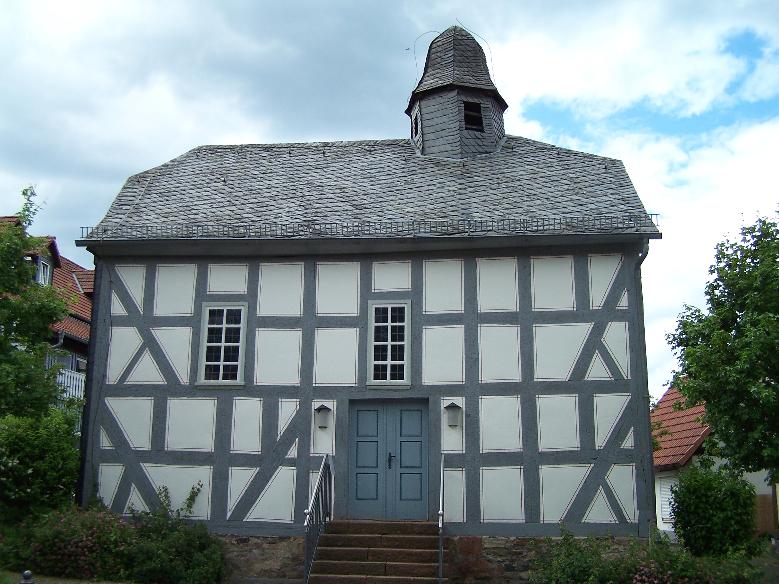 Evangelic timber framed church in Kernbach, built in 1687 in post and beam structure, June 2012